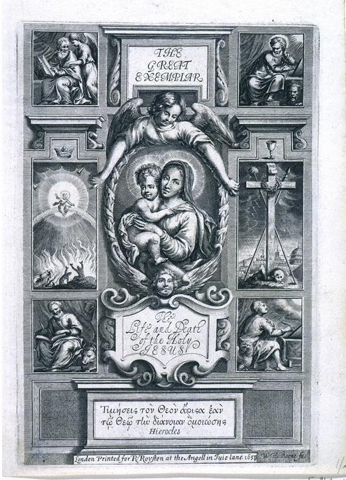 Frontispiece, 1657, William Faithorne, V&A Museum no. E.949-1960 Techniques - Engraving, ink on paper Artist/designer - William Faithorne, Richard Royston born 1599 - died 1686 (publisher) Place - London, England Dimensions - Height 27.6 cm (excluding mount) Width 19.4 cm (excluding mount) Object Type - This print is an engraving. The image is made by cutting lines into the surface of a flat piece of metal, inking the plate and then transferring the ink held in the lines onto a sheet of paper. People - This is the title-page to The Great Exemplar - The Life and Death of the Holy Jesus. The author, Jeremy Taylor, was an Anglican bishop. He was distinguished as a preacher and as the author of some of the most noted religious works in English. Taylor was chaplain to Charles I and later to the Royalist army. At one time, owing to his friendship with the Roman Catholic theologian Christopher Davenport, he was suspected of Roman Catholic tendencies, of which he cleared his name in a sermon at Oxford in 1638. After the Civil War he lived quietly in Wales writing devotional books. His period of greatest literary production was between 1646 and 1660. Subject depicted - The images on this frontispiece show the Virgin and Child, Purgatory, the Instruments of the Passion, and the four Evangelists. The use of such Roman Catholic imagery was only permissible between the covers of a book. The Greek text at the foot of the page translates as 'Thou wilt honour God perfectly if thou behave thyself so that thy soul may become His Image' (from In Aureum Carmen by Hierocles, quoting from the Pythagoreans).